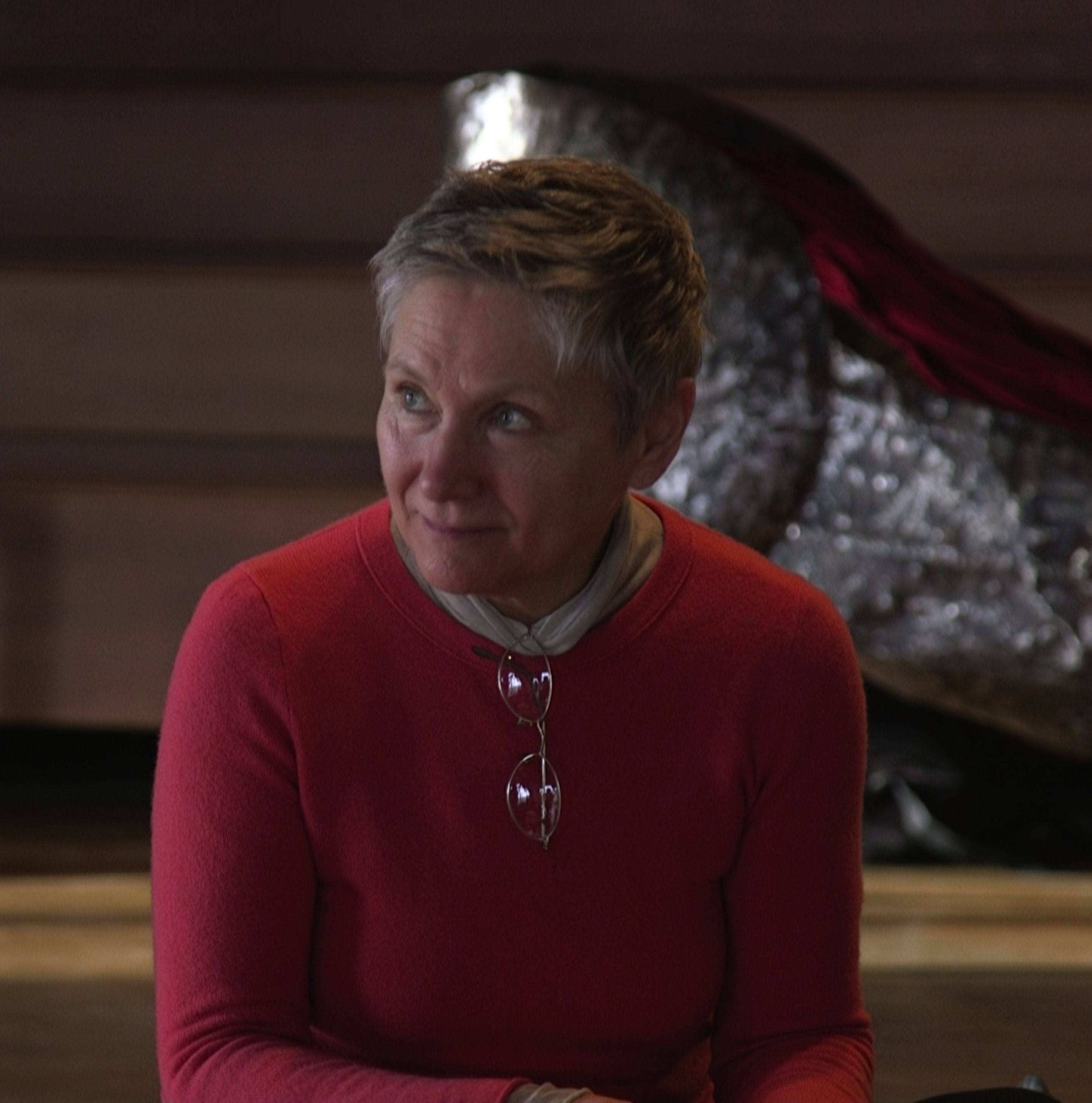 The italian poet Mariangela Gualtieri